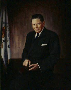 James P. Mitchell Upload Source - U.S. Department of Labor Biography evrik (James P. Mitchell)